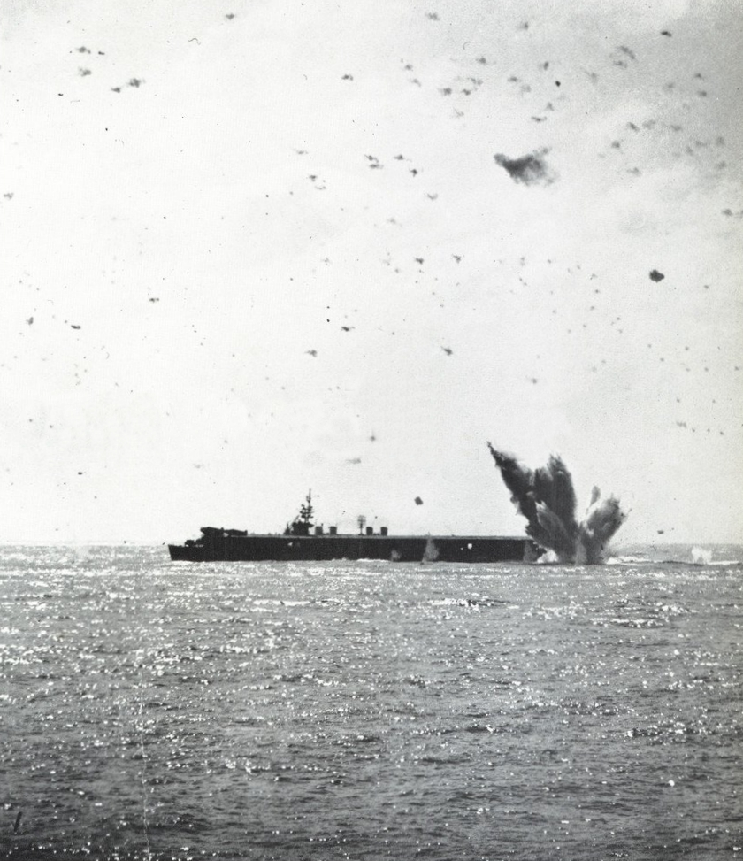 A Japanese Yokosuka D4Y Suisei (Allied reporting name "Judy") crashes close to the U.S. Navy light aircraft carrier USS Bataan (CVL-29) on 20 March 1945.